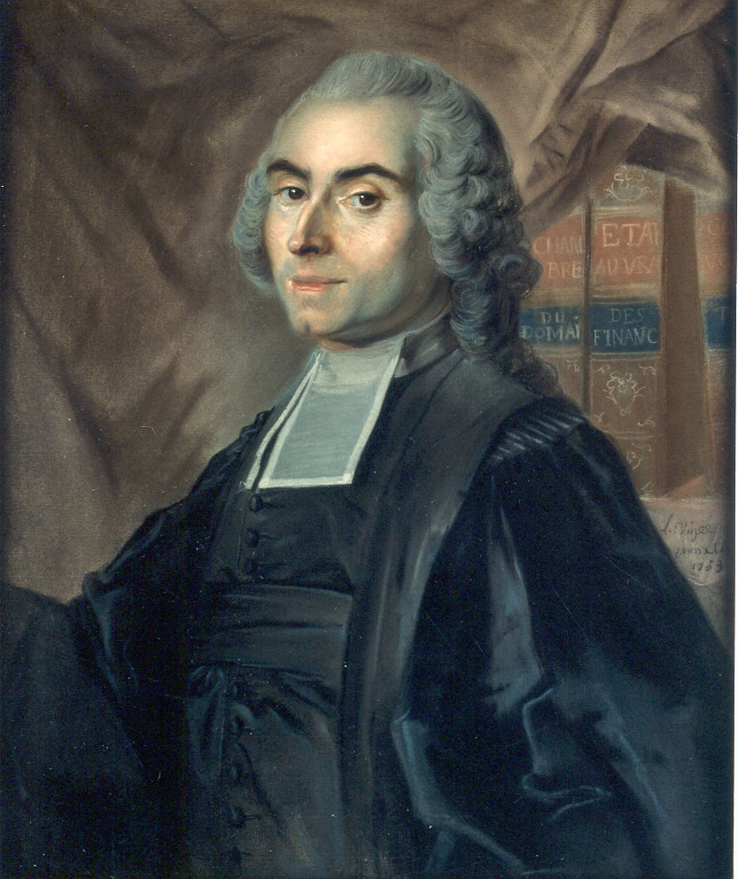 Portrait of Jean Nicolas de Boullongne (1726-1787), painting by Louis Vigée, in Musée d'Art et d'Archéologie du Périgord, Périgueux, France